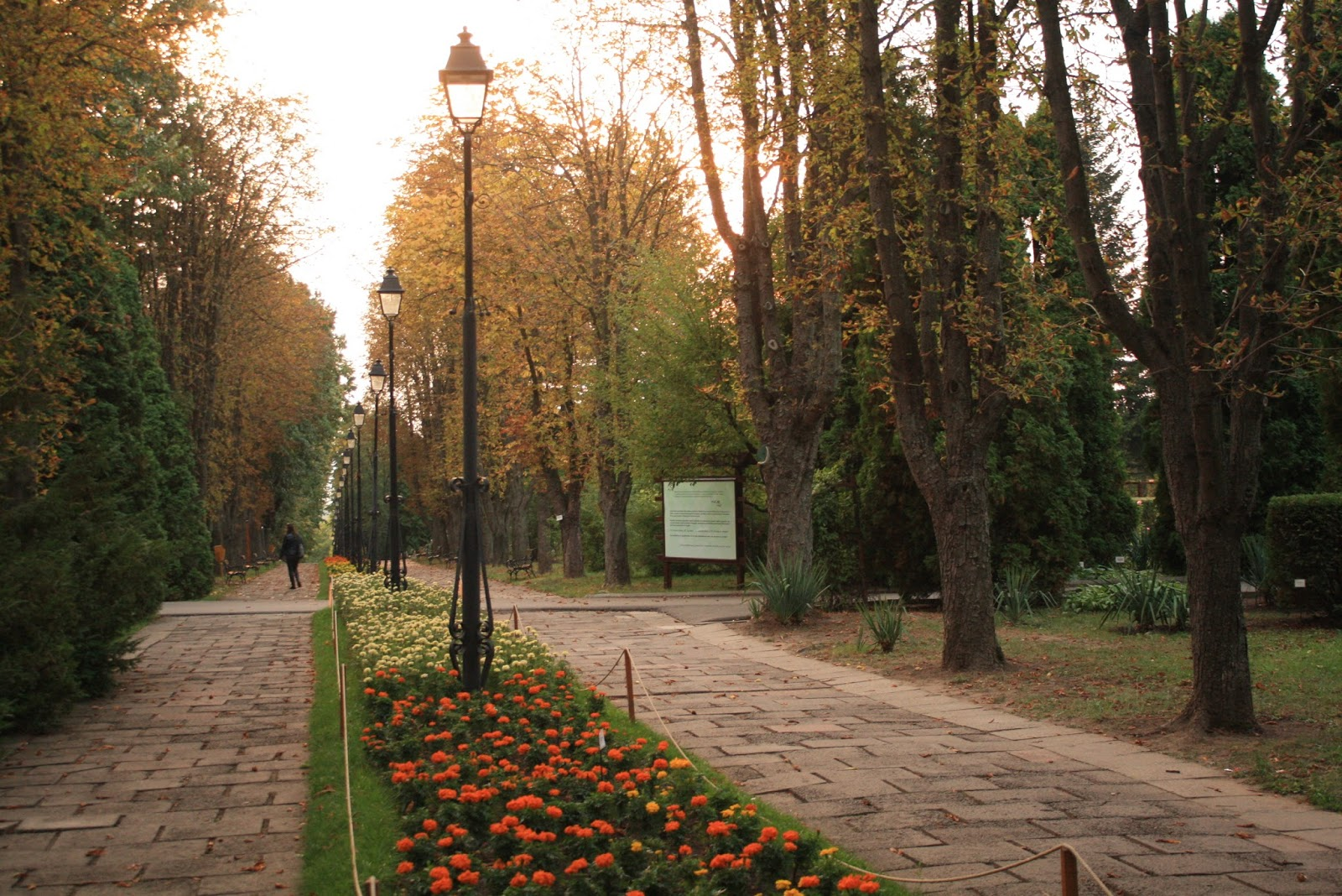 The Iași Botanical Garden, main entrance (east)